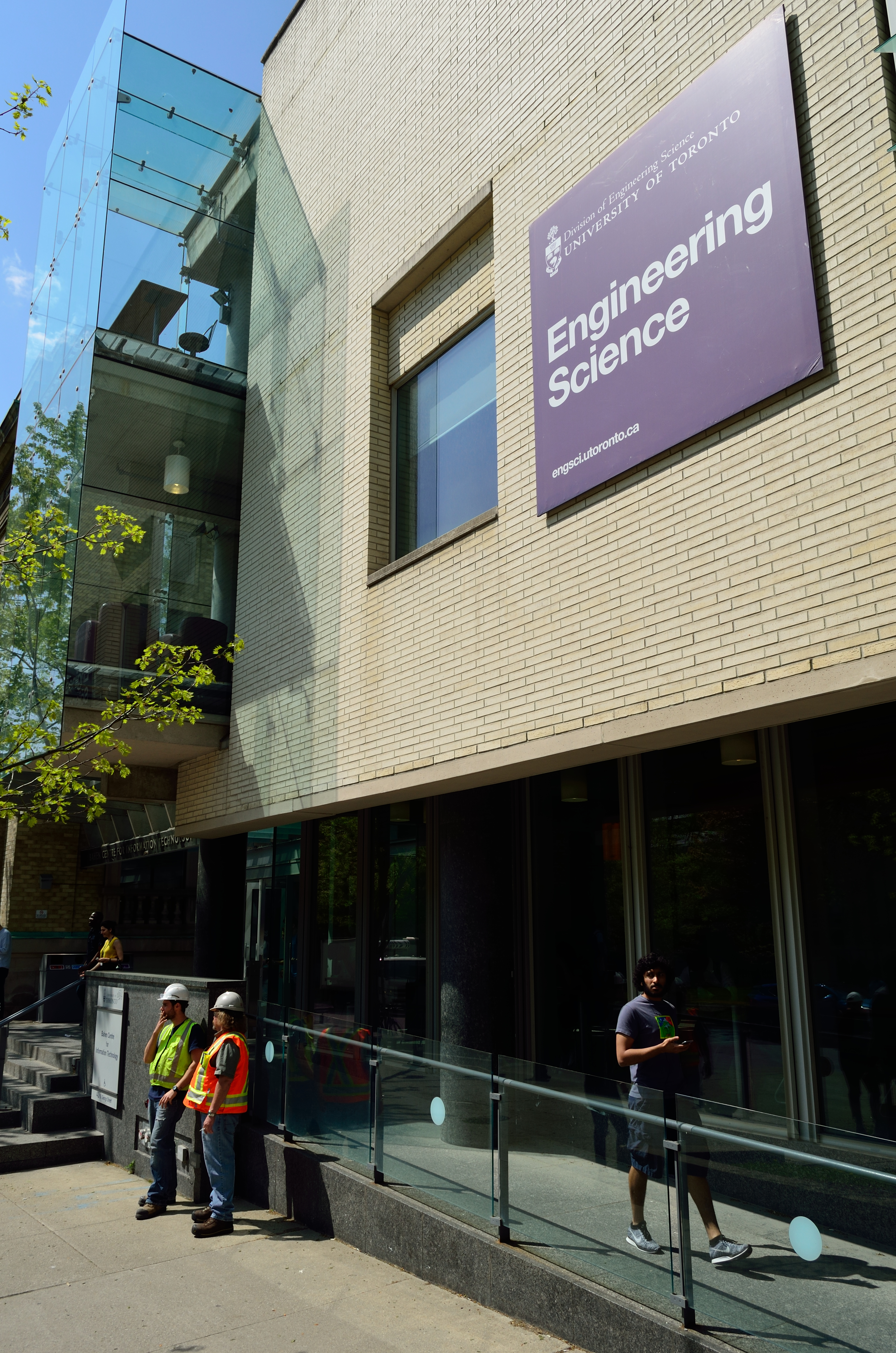 Engineering Science - Bahen Building, University of Toronto